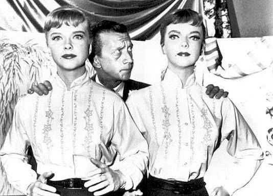 Photo of Anne Francis and James Milhollin from The Twilight Zone episode "The After Hours".